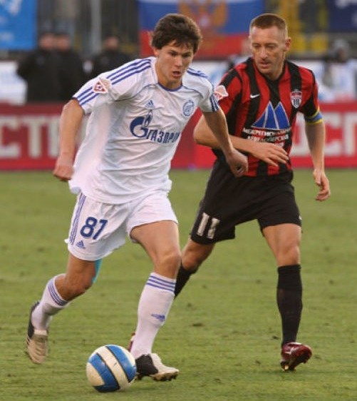 Ilya Maksimov (87) and Andrei Tikhonov (11) in match between FC Zenit St. Petersburg and FC Khimki